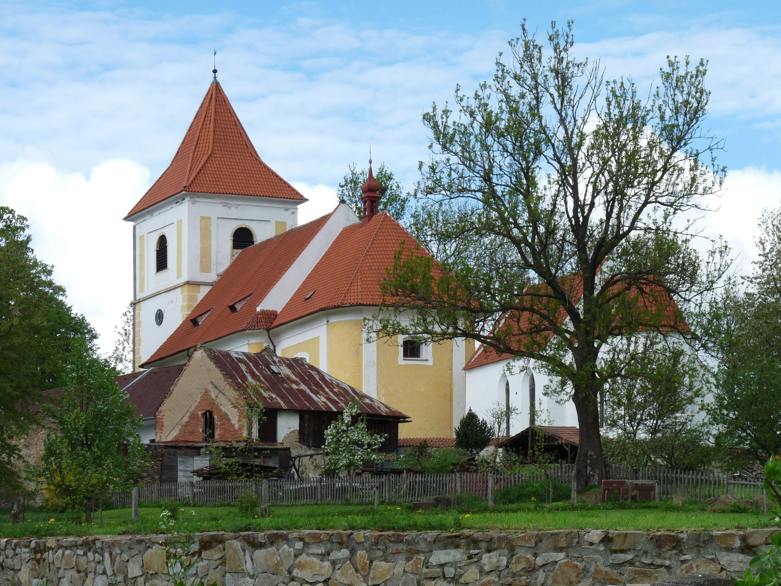 Church in the village of Svéraz Český Krumlov District, South Bohemian Region, Czech Republic.